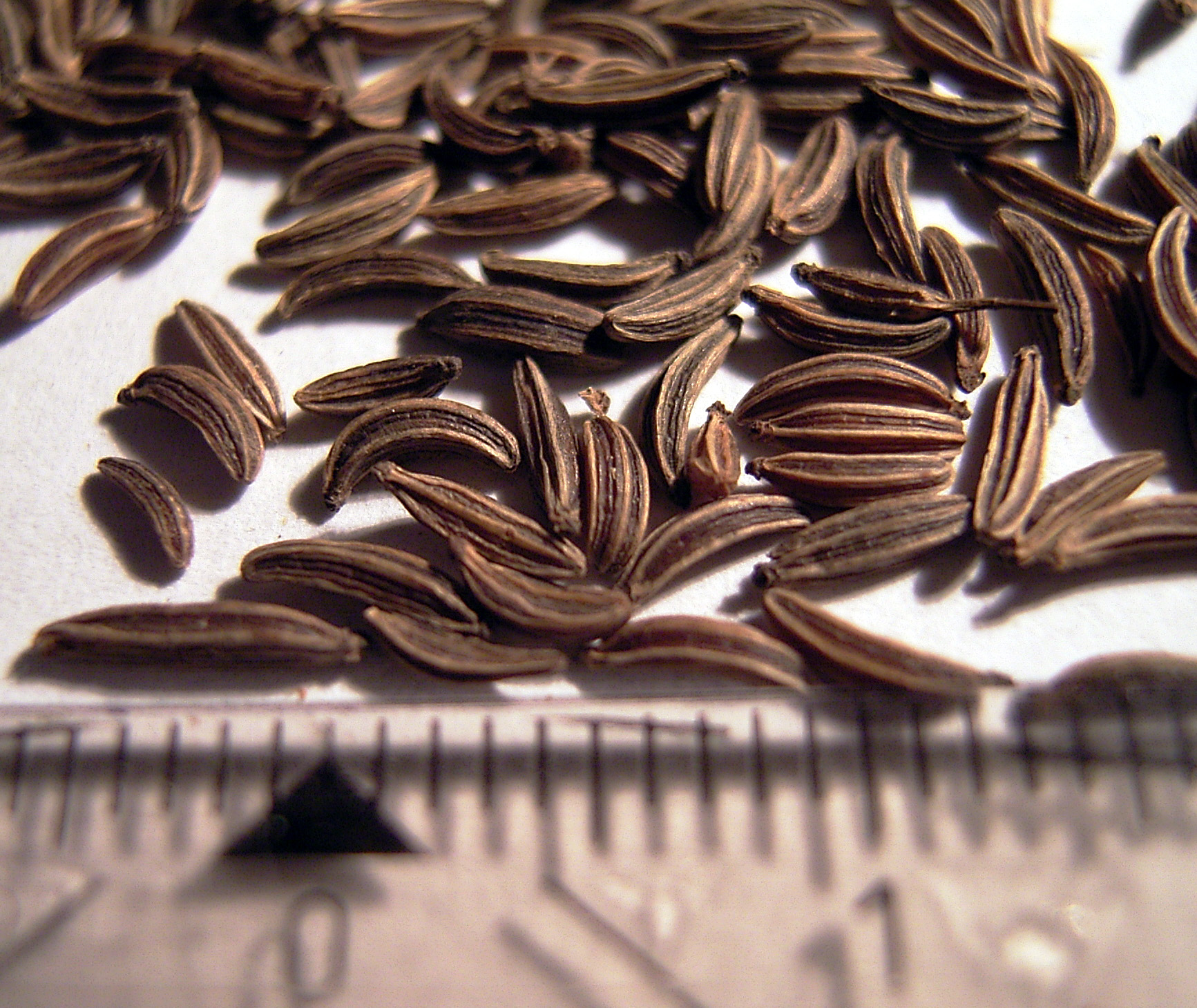 Caraway seeds and metric ruler